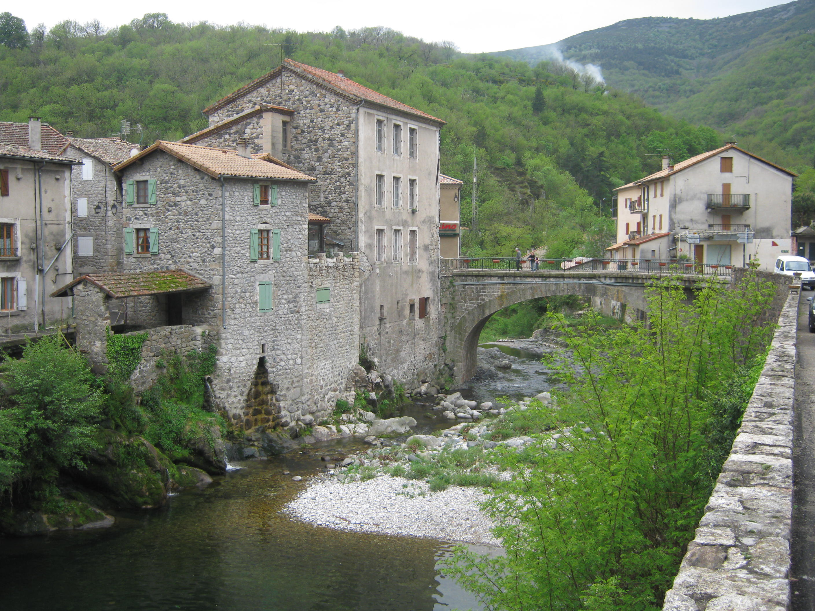 Village Burzet in the Bourges valley, France